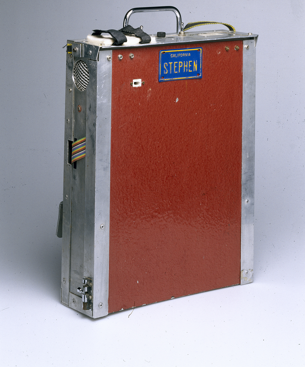 Computer and speech synthesiser housing, 1999. Speech synthesiser used by English theoretical physicist Stephen Hawking (b 1942). Although current computers are very capable of pronoucing words, they find word emphasis (through which meaning is often conveyed) difficult. However, Hawking's computer-generated voice has become recognised world-wide as uniquely his own.